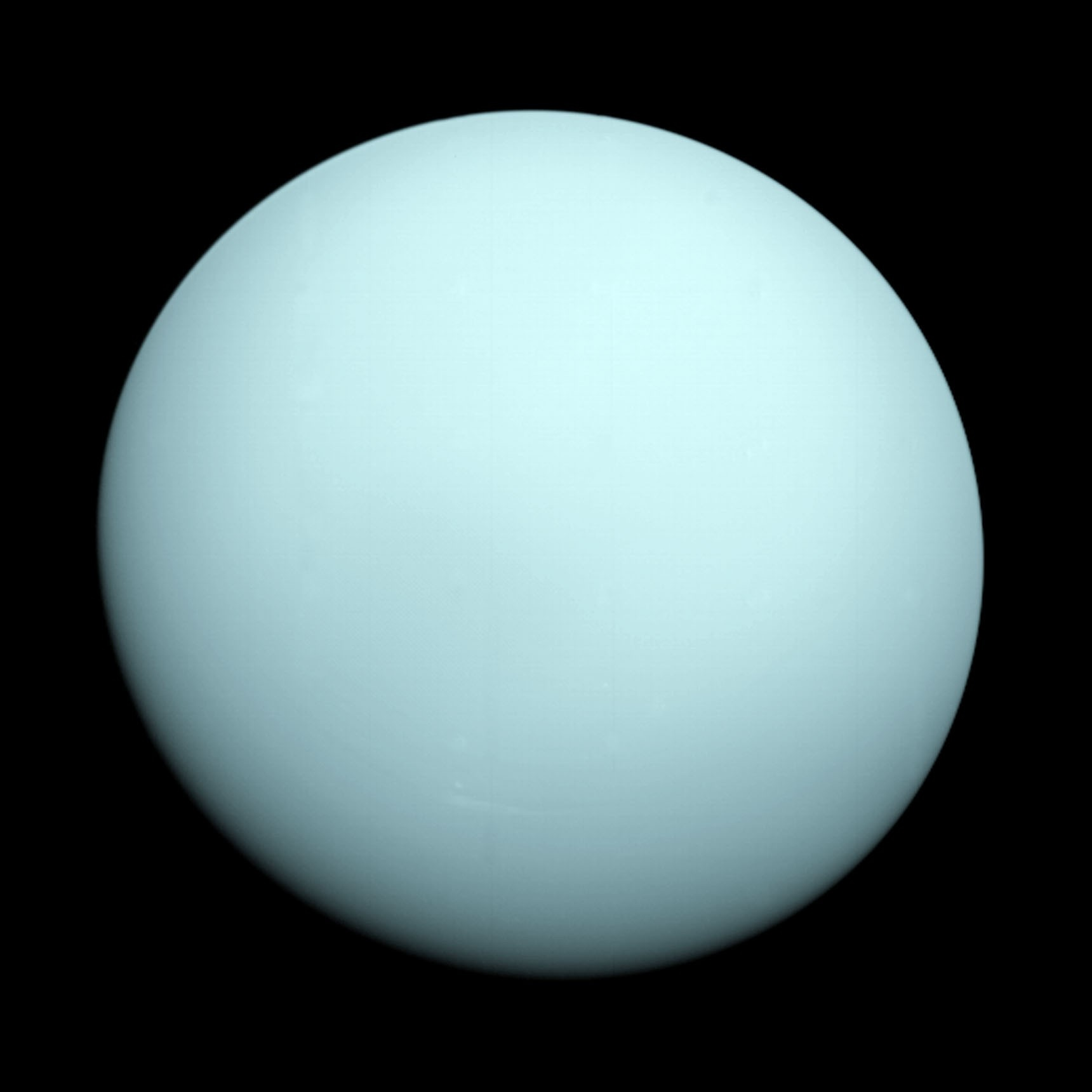 This is an image of the planet Uranus taken by the spacecraft Voyager 2 in 1986. See Uranus.jpg for how Uranus would appear in visible light.